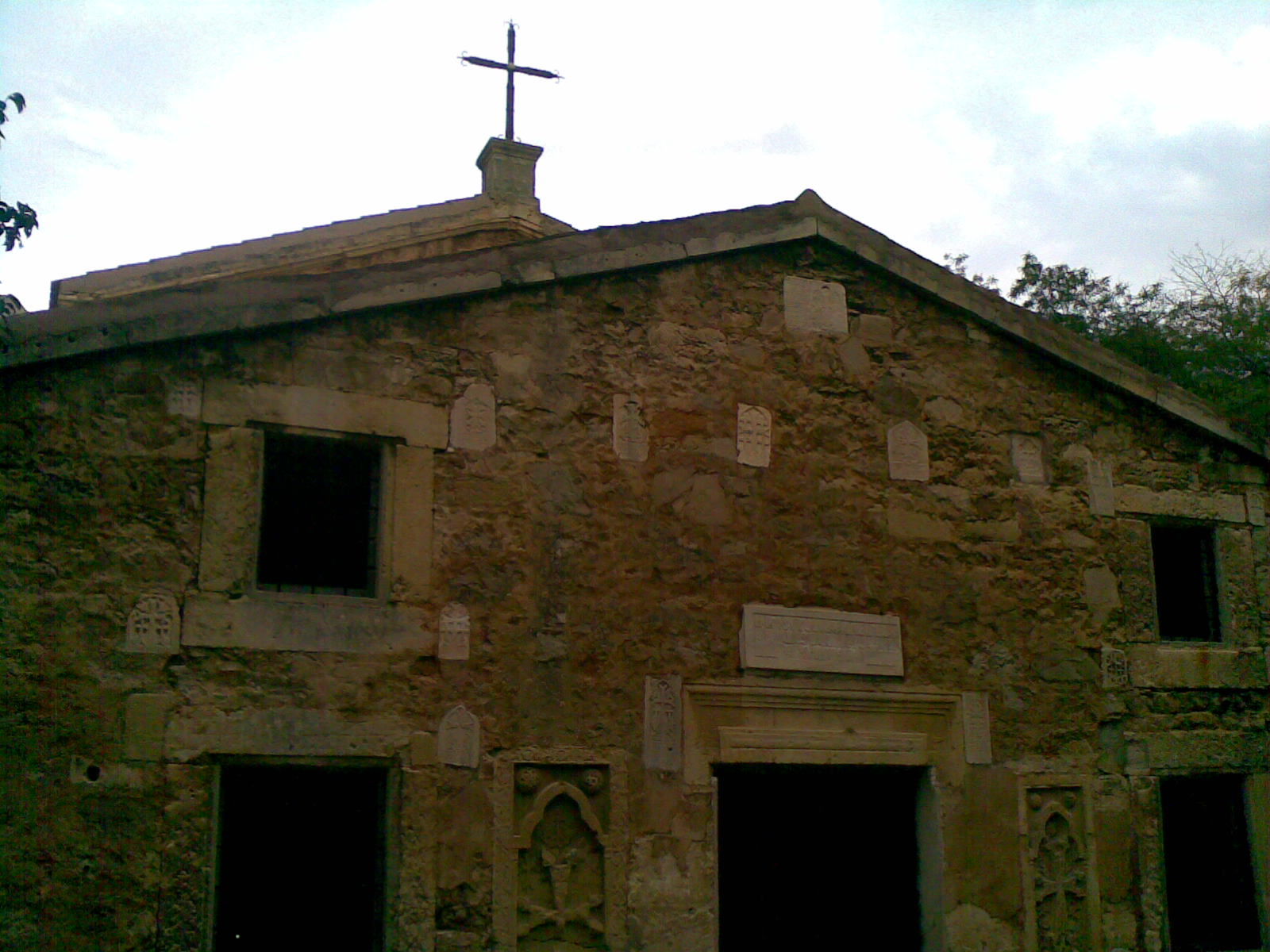 Feodosia_Armenian_church02